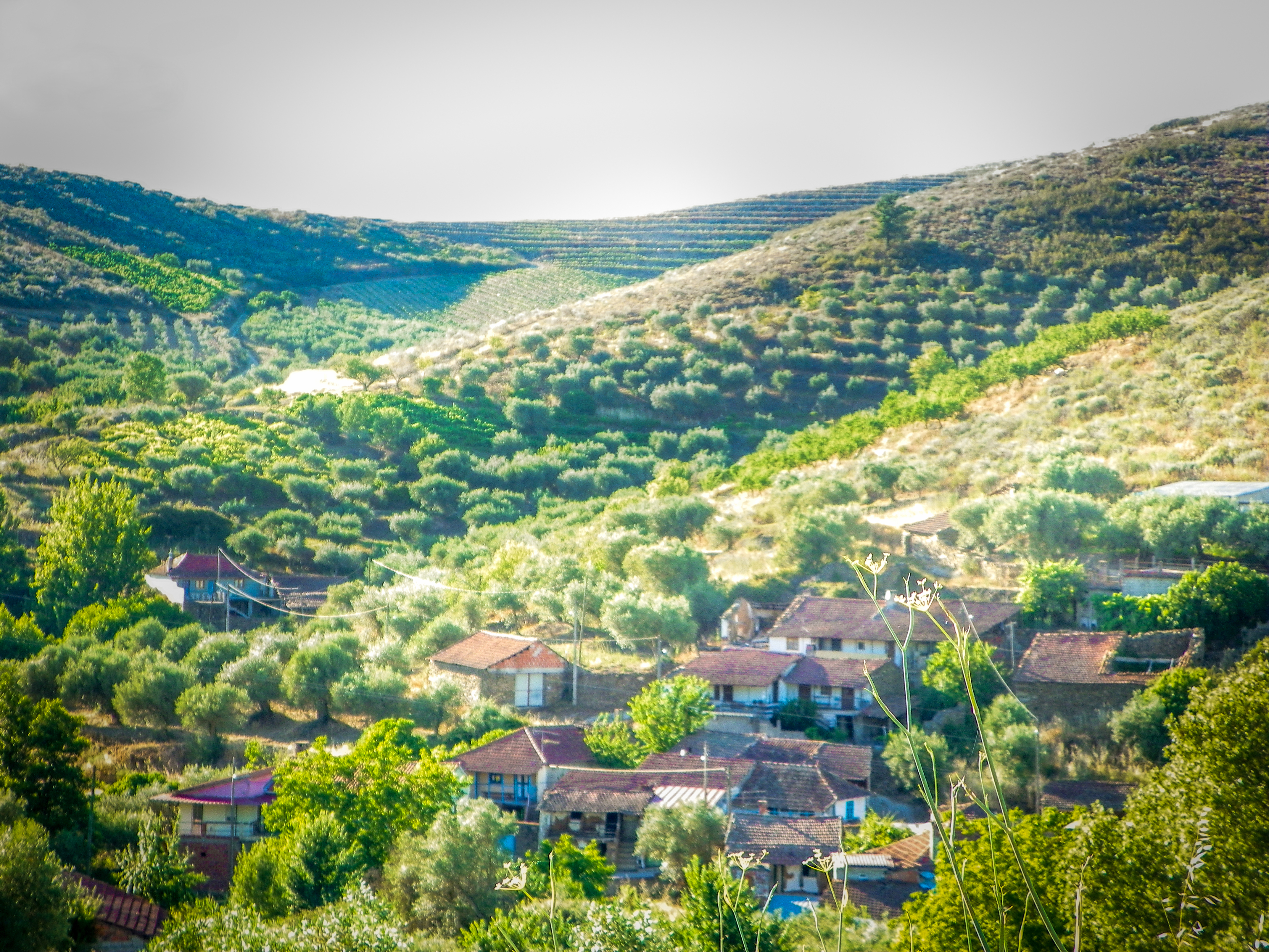 emeres village - canaveses